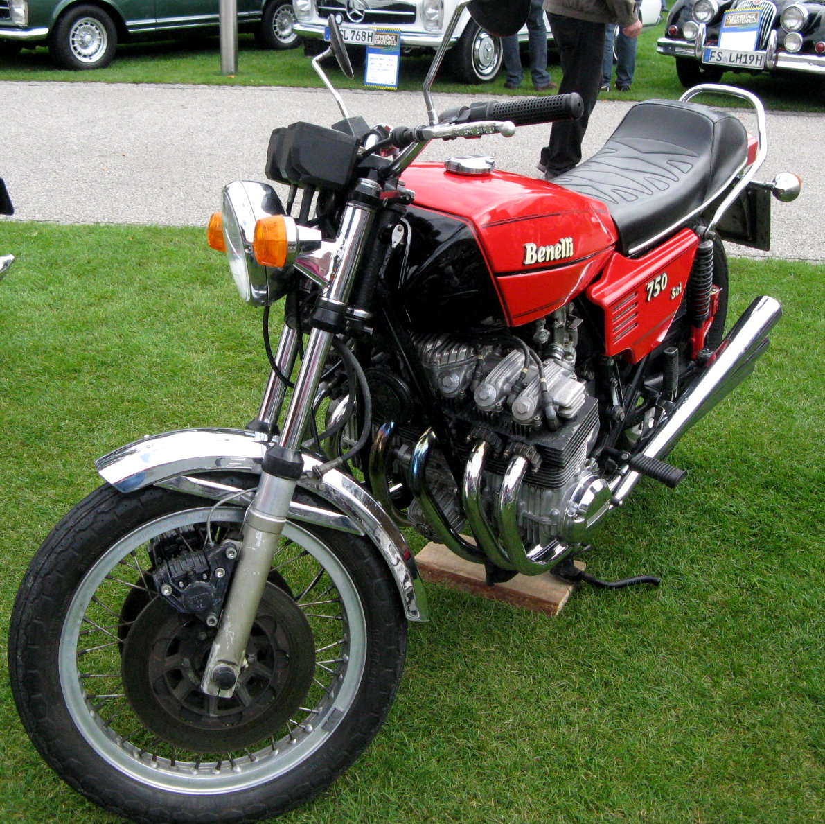 Benelli 750 Sei at vintage vehicles show in Fürstenfeld (Bavaria)